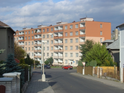 A prefabricated house in Kadaň My own photo.